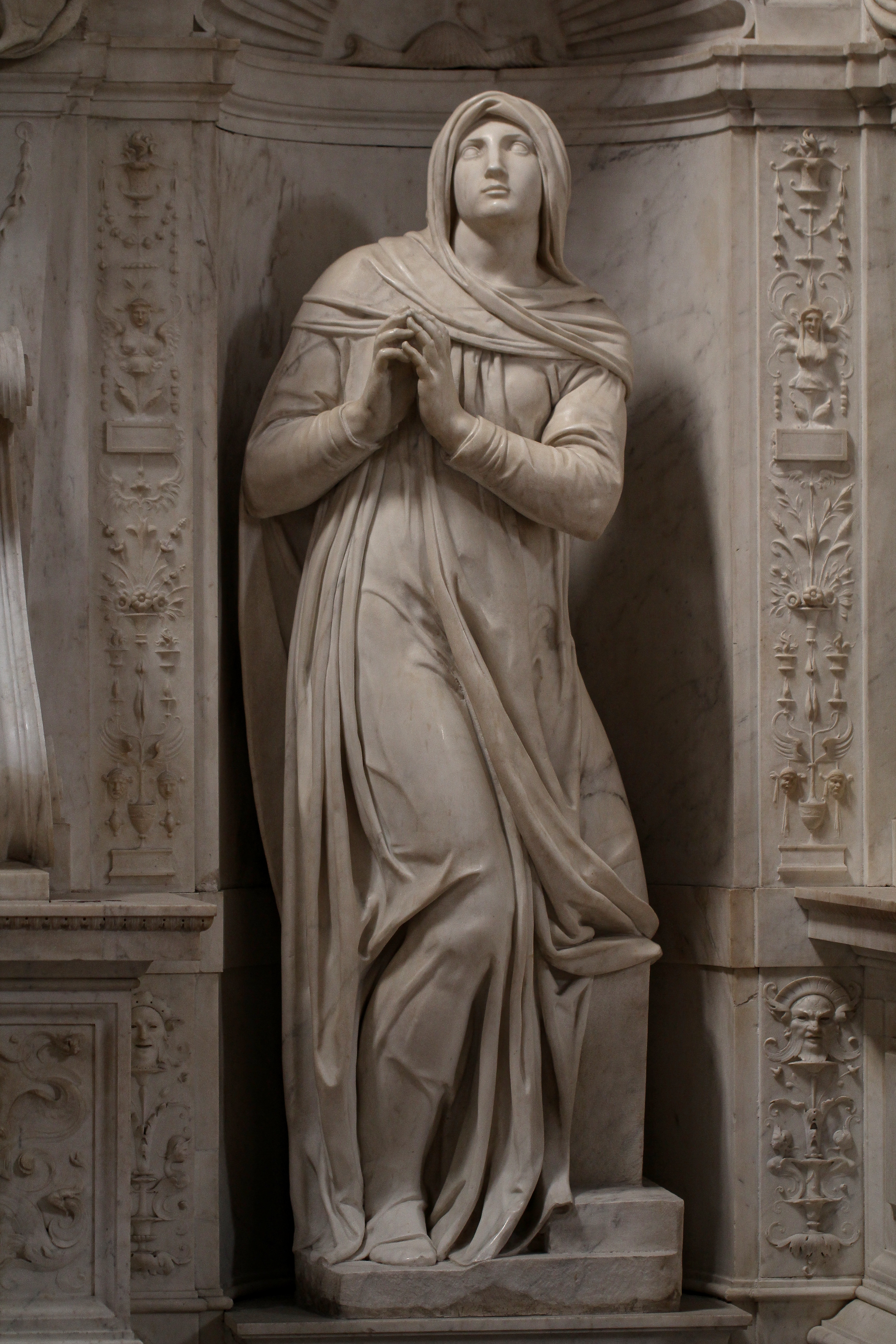 Rachel by Michelangelo Buonarroti, Tomb (1505-1545) for Julius II, San Pietro in Vincoli (Rome)